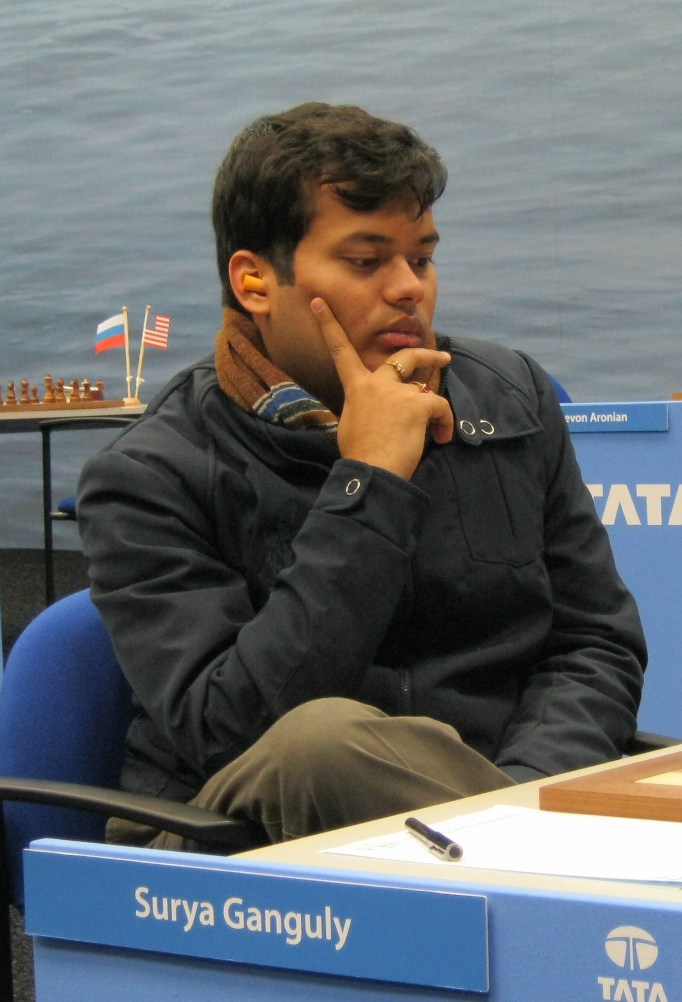 Surya Shekhar Ganguly, chess grandmaster from India